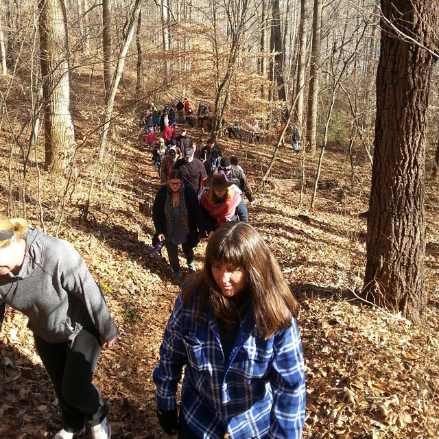 first day hikes 2015